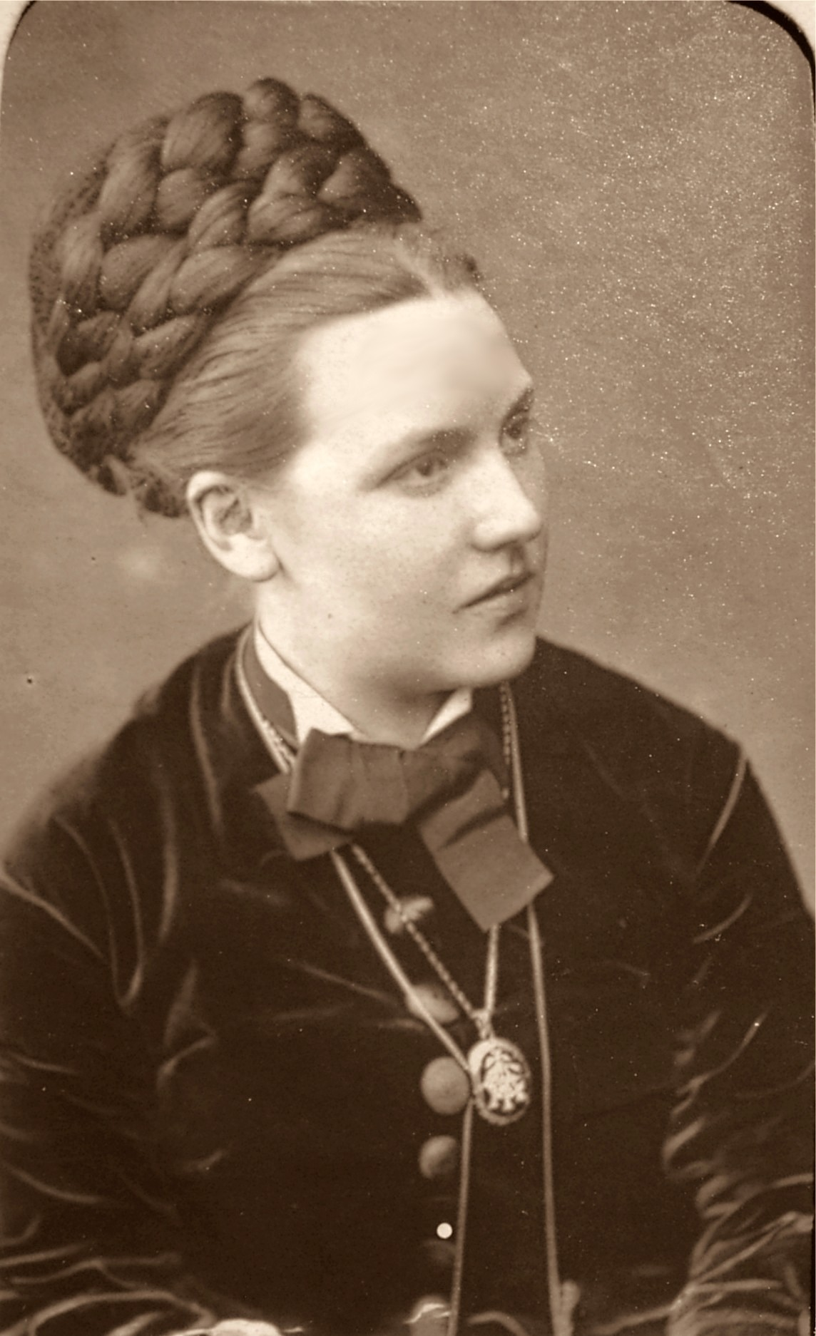 Pauline Rita 1842-1920, English Opera Singer.